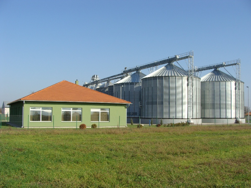 Fermopromet Company of Majške Međe